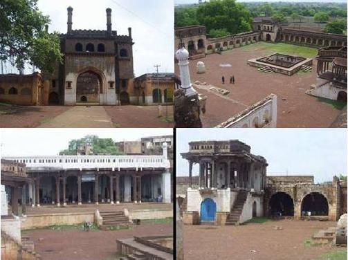 Basava Kalyan Fort Viewer From Basavakalyan, Dinesh B Ganure